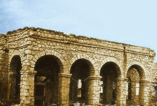 Zayla ancient ruins